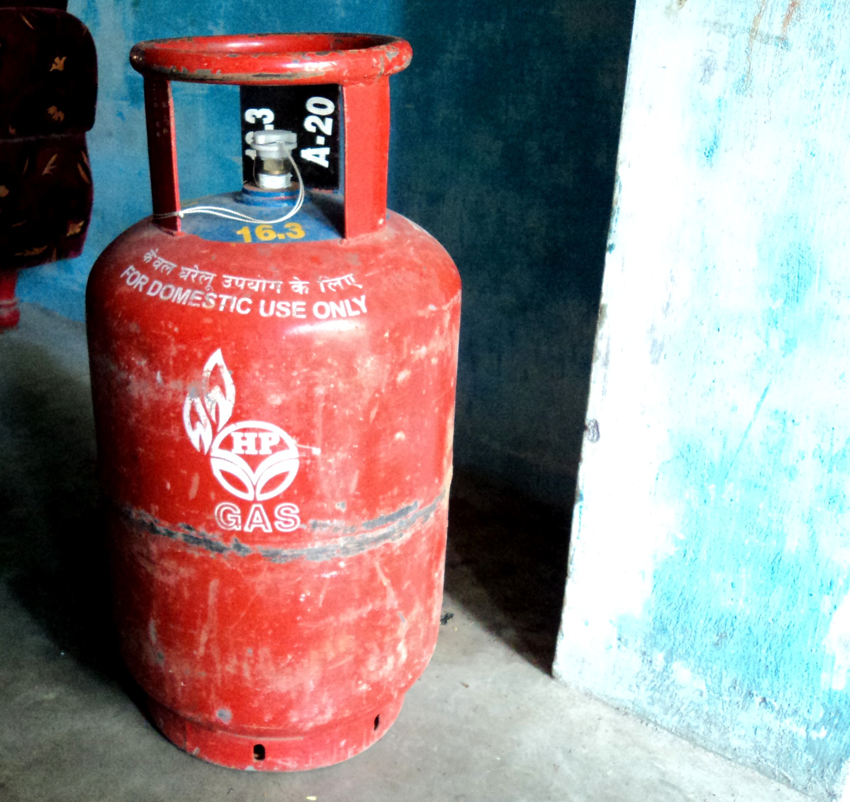 gas cylinders in Tamil Nadu, India.